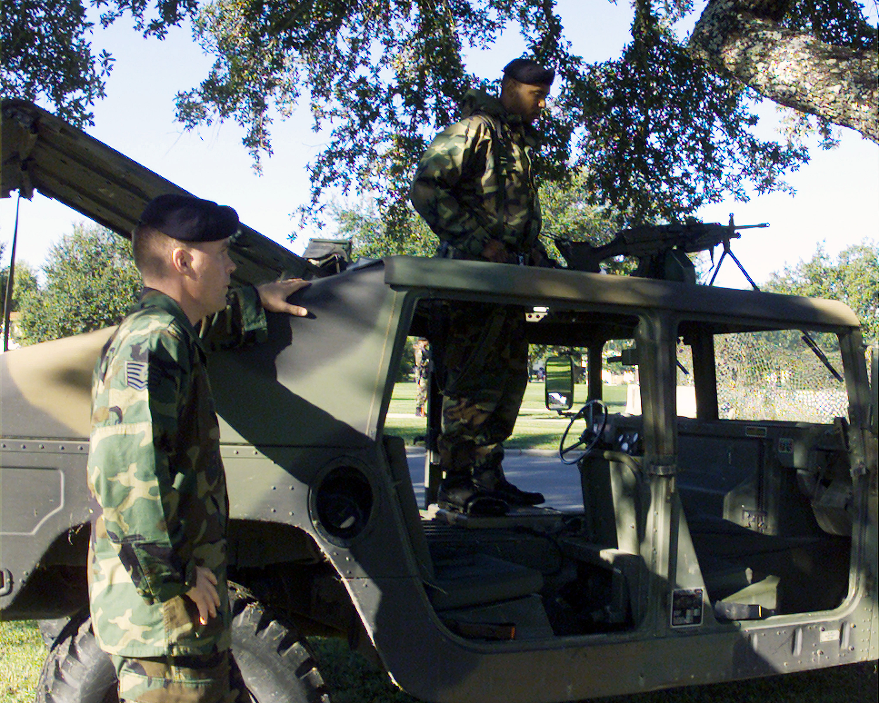 Standing by their M1043 High-Mobility Multipurpose Wheeled Vehicle (HMMWV), Technical Sergeant (TSGT) Curtis Rayl, (left), USAF, and Senior Airman (SRA) Jerry Achan, USAF, 12th Security Forces Squadron (SFS), take part in increased measures, providing security for the base perimeter at Randolph AFB, Texas. Armed with a 5.56 mm M16A1 rifle a 12th Security Forces Squadron (SFS) member conducts a 100 percent ID check at Randolph AFB, Texas, as part of heightened security measures. Heighten security at Randolph AFB began shortly after terrorists hijacked commercial jetliners and crashing them into the twin towers of the World Trade Center in New York City and the Pentagon on September 11, 2001.